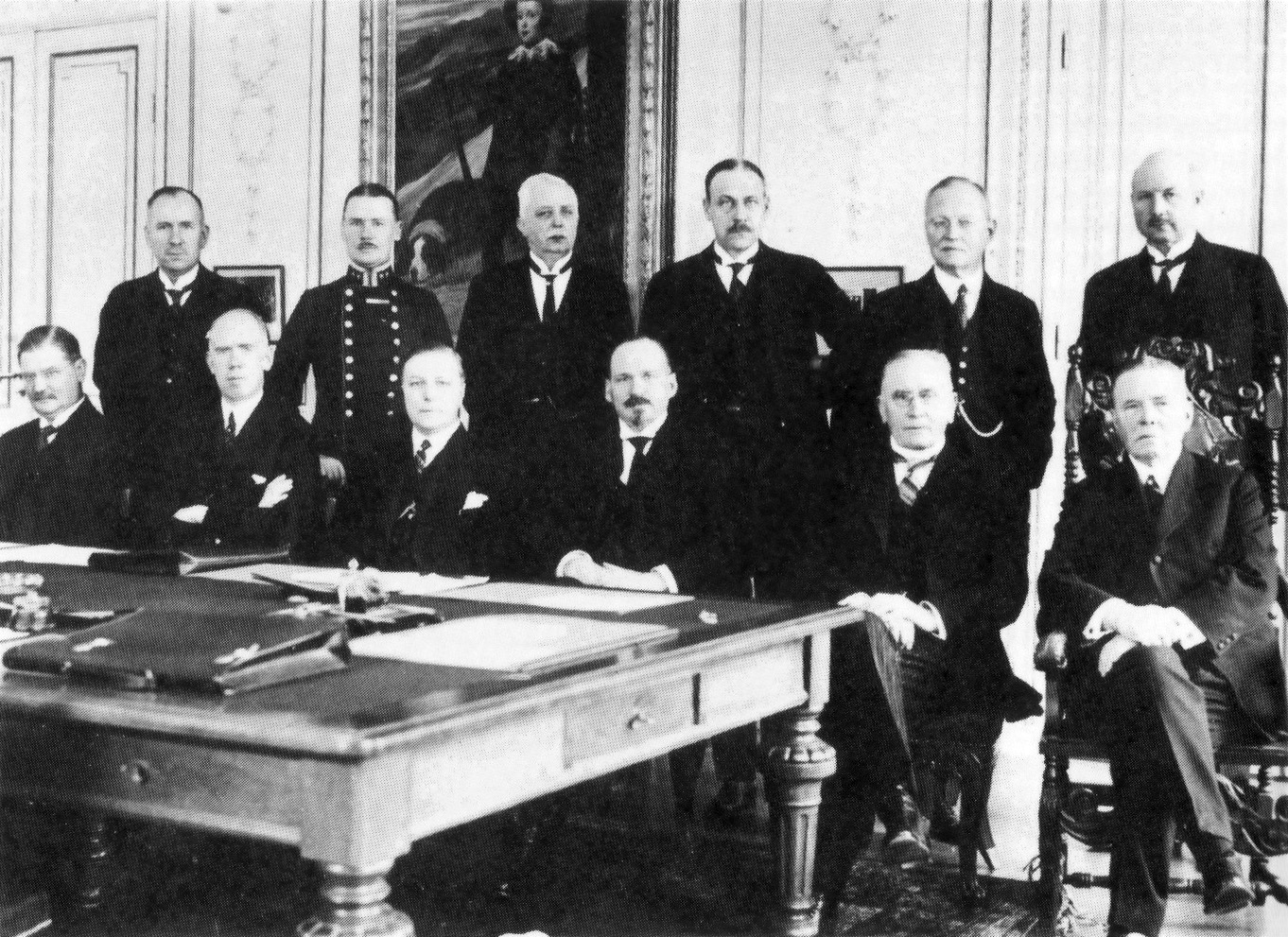 The second cabinet of Arvid Lindman (1928-1930). Standing from left: Minister for Agriculture Bernhard Johansson, Minister for Defense Harald Malmberg, Minister for Justice Georg Bissmark, Minister without Portfolio August Beskow, Minister for Communications Theodor Borell, Minister for Social Affairs Sven Lübeck. Sitting from left: Minister for Eclesiastic Affairs Claes Lindskog, Minister without Portfolio Nils von Steyern, Minister for Trade Vilhelm Lundvik, Minister for Finance Nils Wohlin, Minister for Foreign Affairs Ernst Trygger, Prime Minister Arvid Lindman.